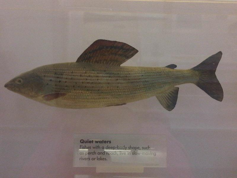 Grayling (Thymallus thymallus) at the Natural History Museum in London, England.